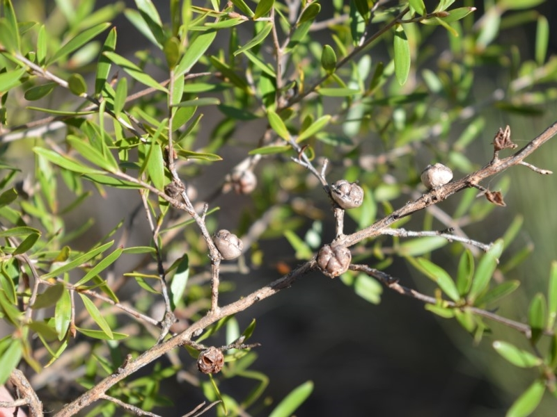 Fruit of Leptospermum sejunctum near West Nowra, New South Wales